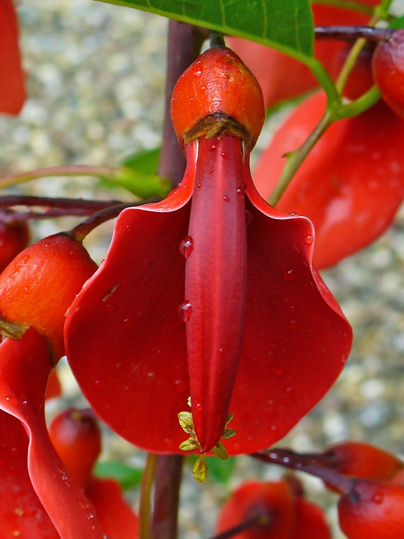 Erythrina crista-galli, Fabaceae, Cockspur Coral Tree, flower; Botanical Garden KIT, Karlsruhe, Germany.